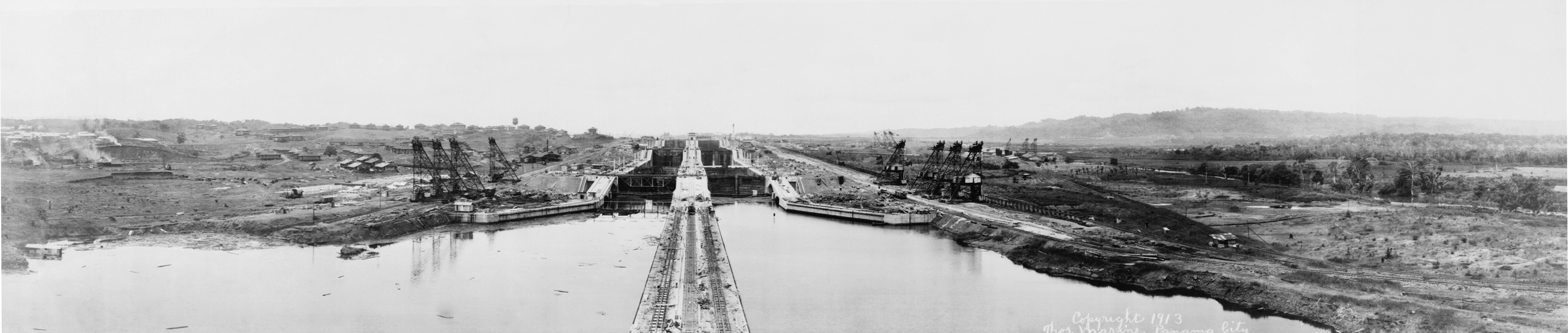 Restored version of PanamaCanal1913.jpg: artifacts and creases removed, brightness adjusted at far left and far right, cropped slightly, and histogram adjusted. 0.3 deg. counterclockwise rotation.